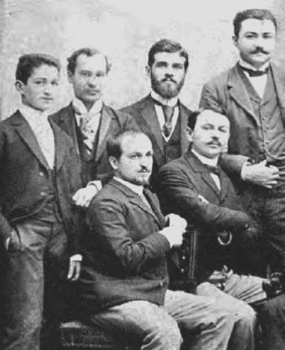 Fragment of a group photograph of Romanian people. First from the left, seated: George Diamandy, politician and dramatist. Second from the left, standing: his younger brother Constantin, diplomat. Both men were in their twenties.